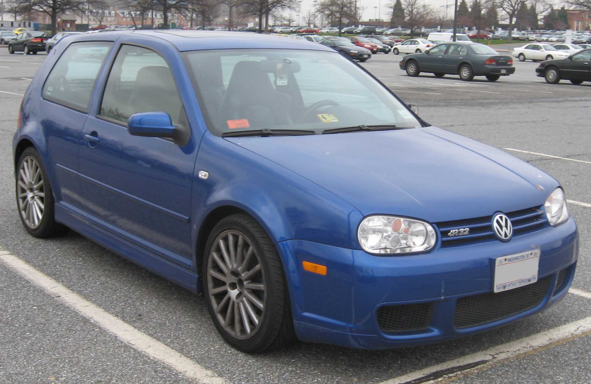 Volkswagen R32 photographed in College Park, Maryland, USA.